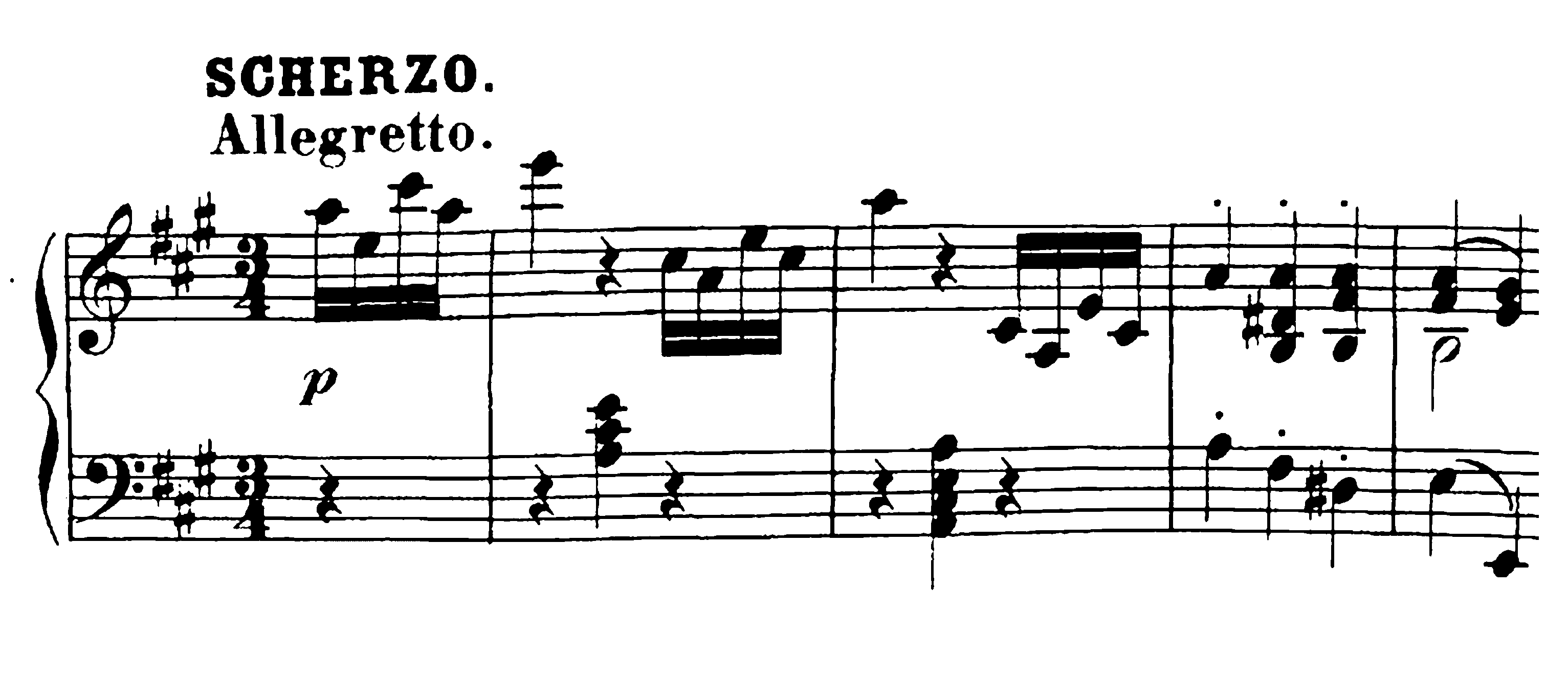 Ludwig van Beethoven, Sonata № 2, beginning of the third movement